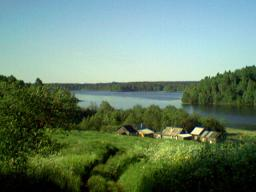 This picture was taken personaly. It displayes one of the lakes from the town "Terehovo"